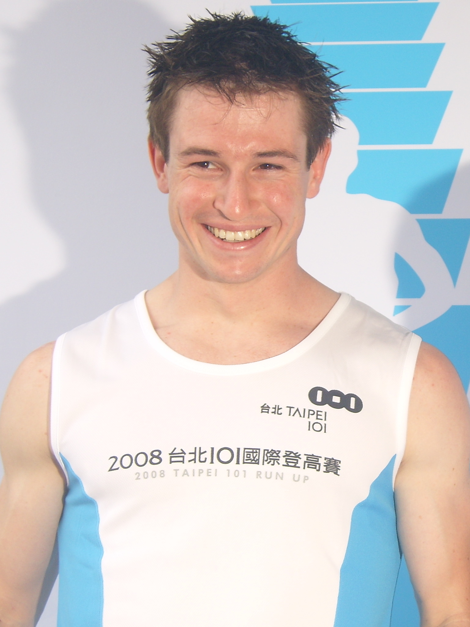 2008 Taipei 101 Run Up: Champions of Elite Runners - Thomas Dold, in Men's Class.